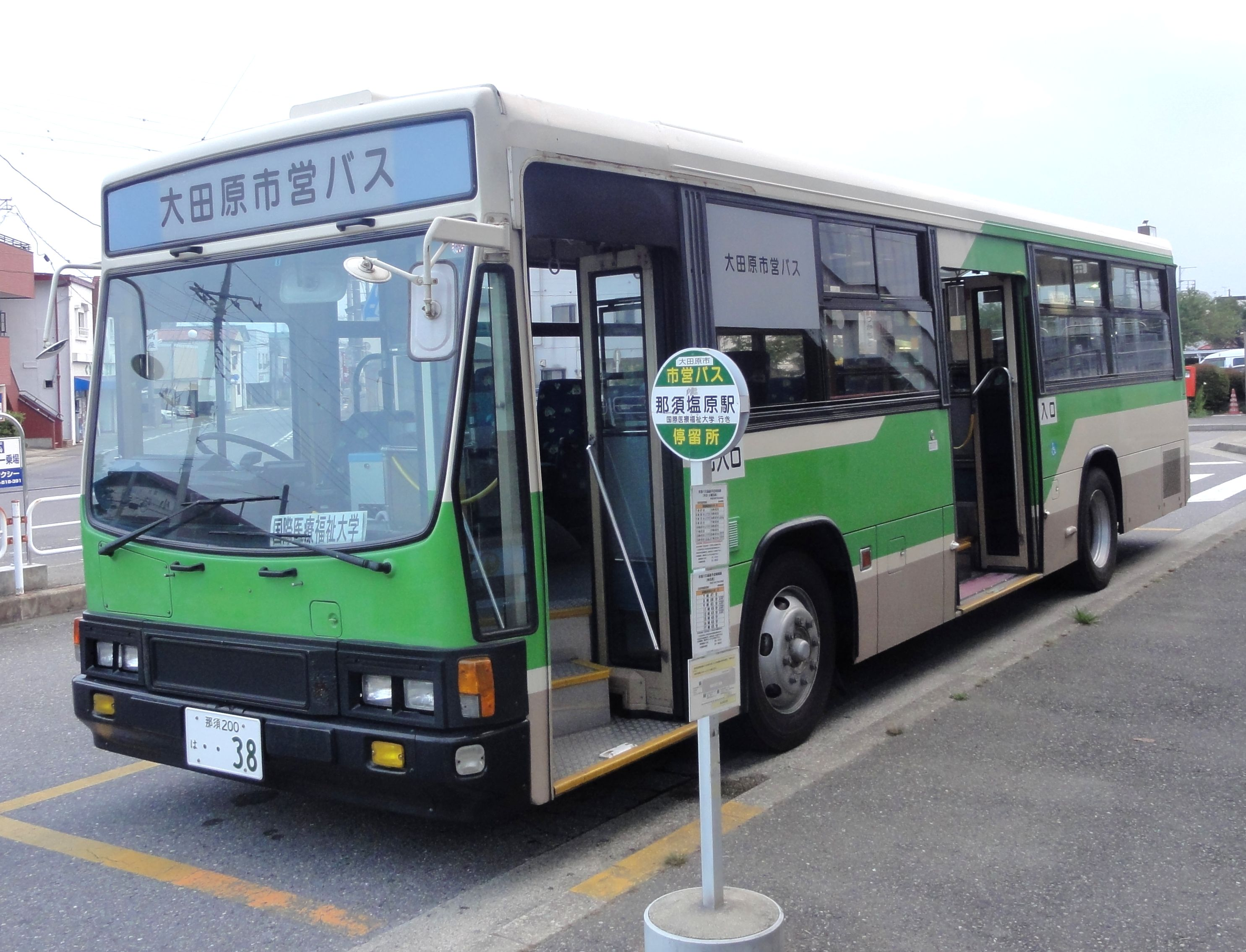 Otawara City Bus at Nasu-Shiobara Station